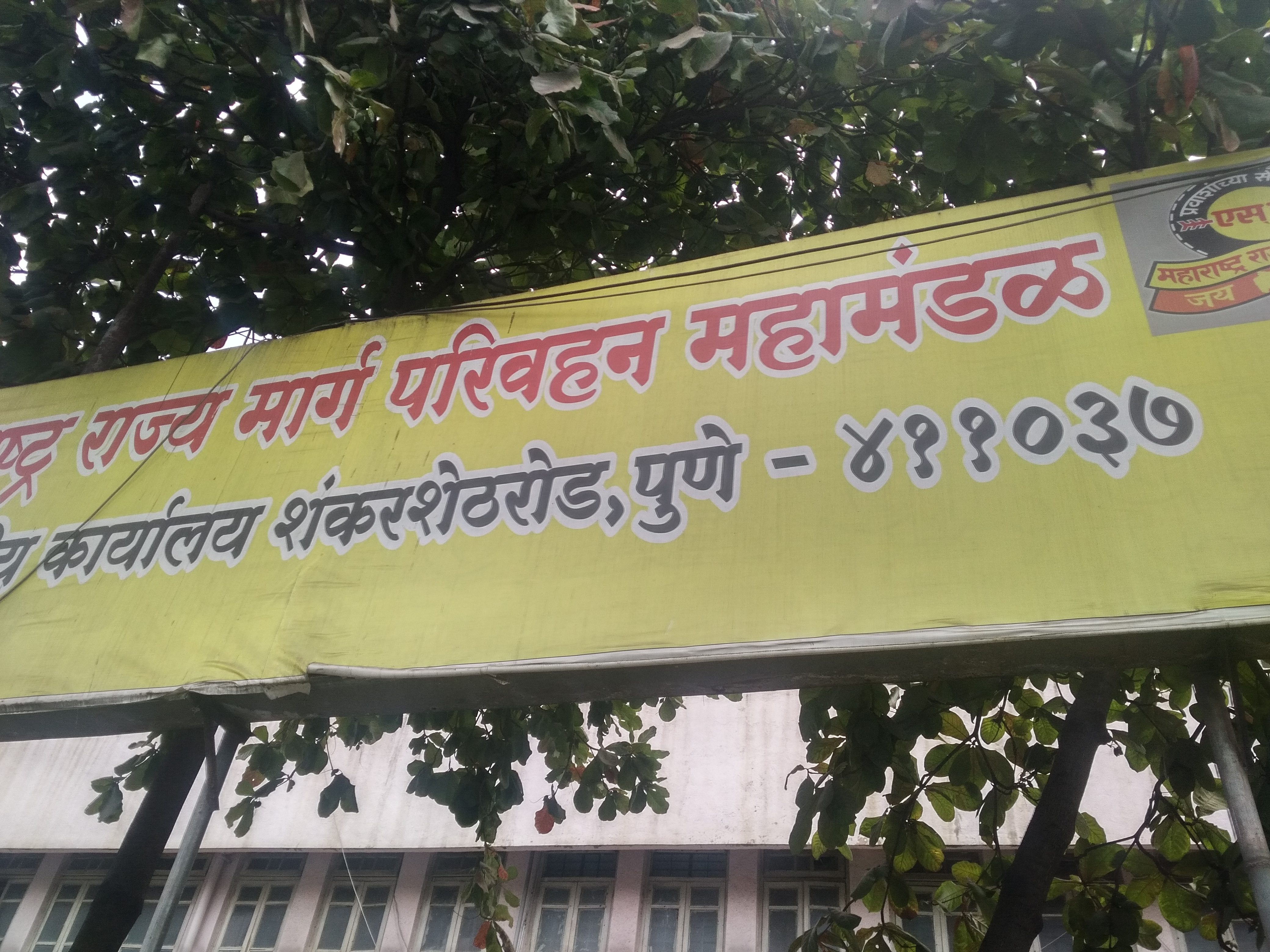 Pune divisional office of MSRTC